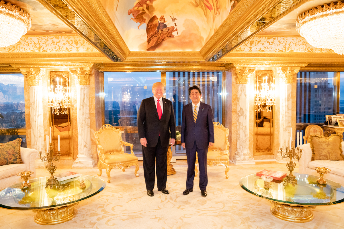 President Donald J. Trump and Prime Minister Shinzo Abe of Japan shake hands during their bilateral dinner meeting Sunday evening, Sept. 23, 2018, in the President’s private residence at Trump Tower in New York City. (Official White House Photo by Shealah Craighead)